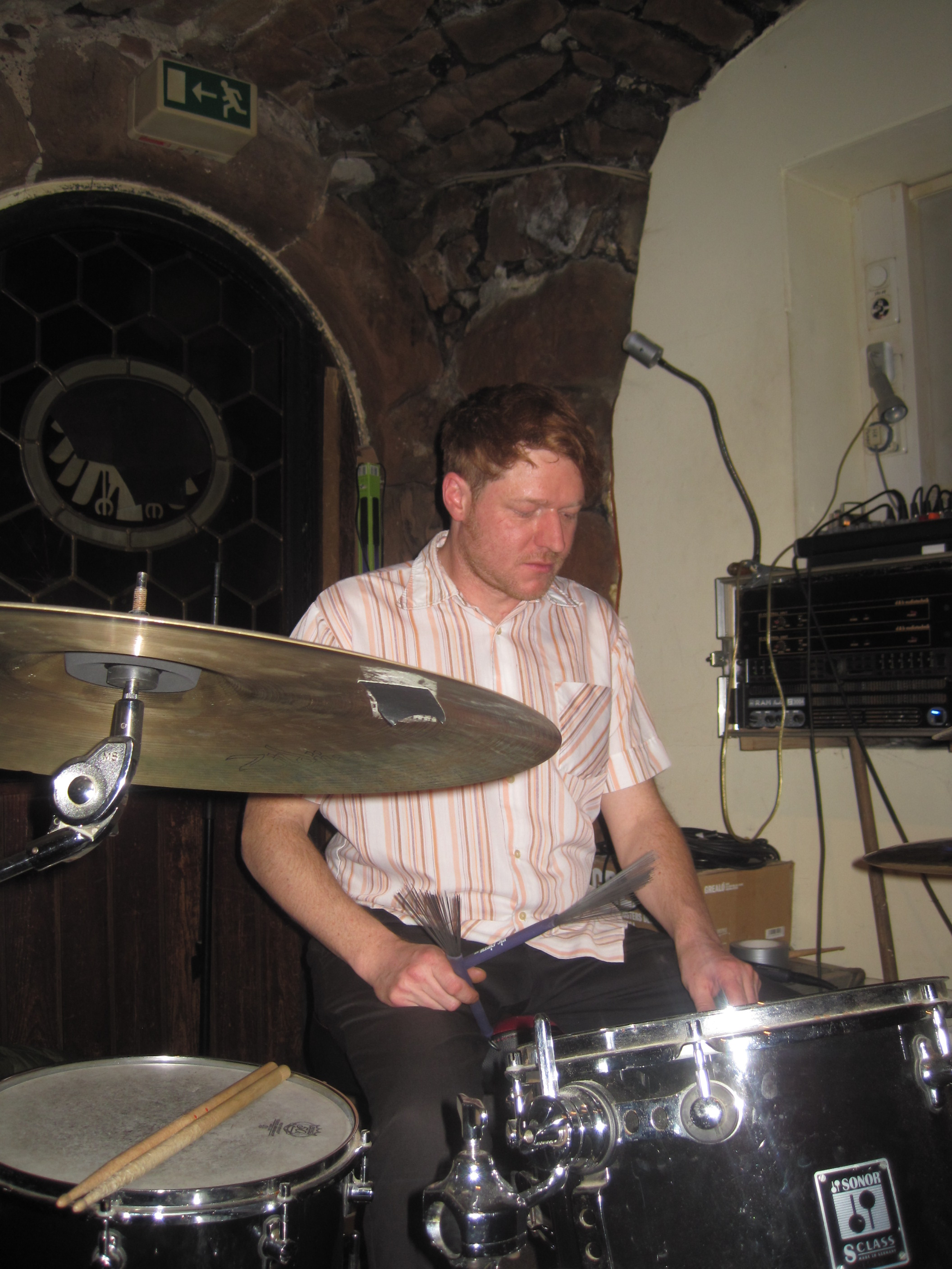 Oliver Steidle, Jazz saxophonist from Berlin; Picture taken in Jazz Club Cavete, Marburg /Hesse